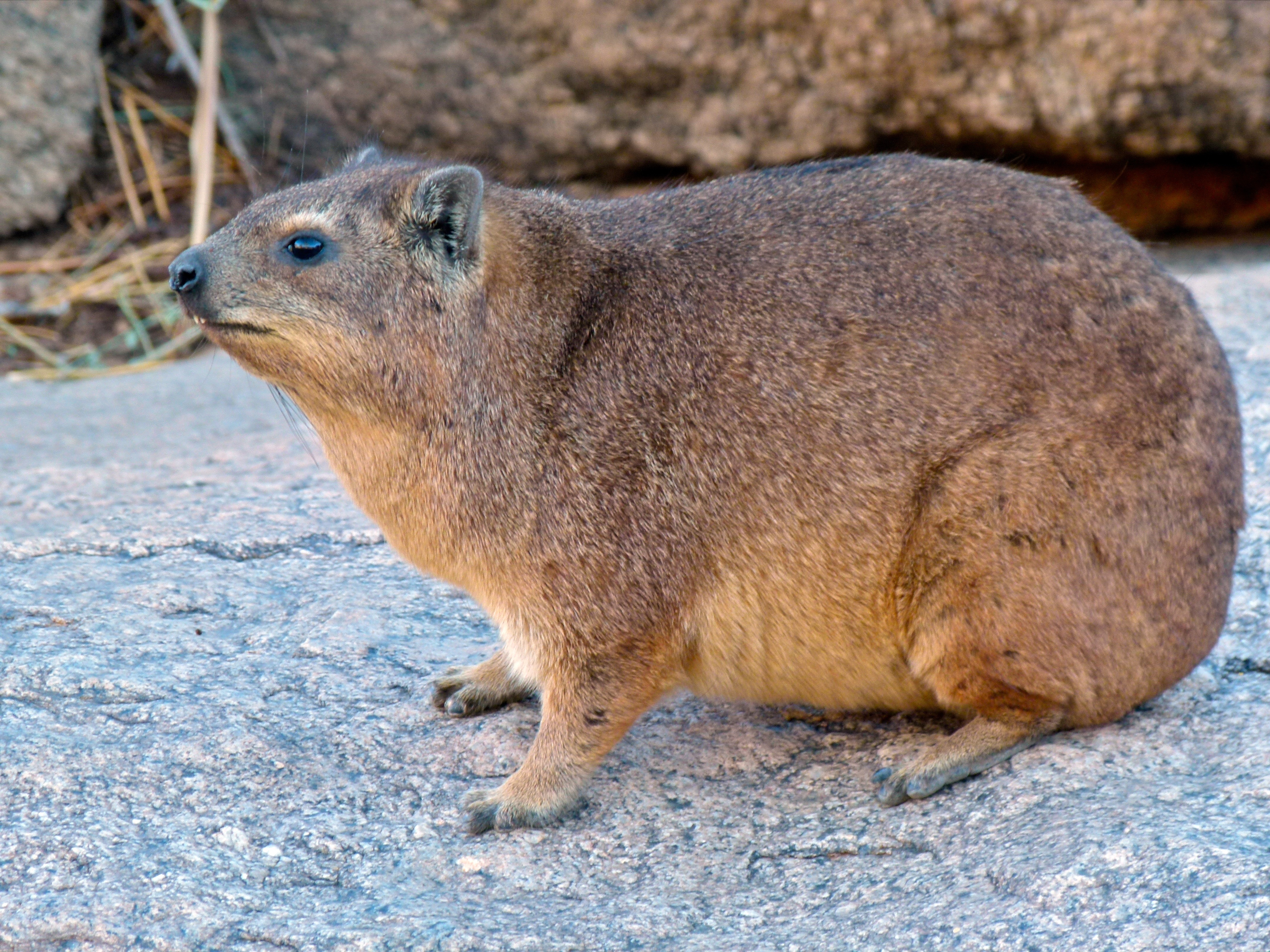 Augrabies National Park, SOUTH AFRICA